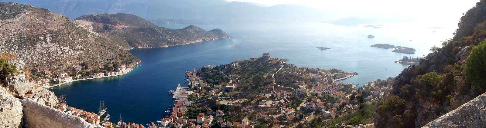 Kastelorizo Island, Panoramic View, Greece